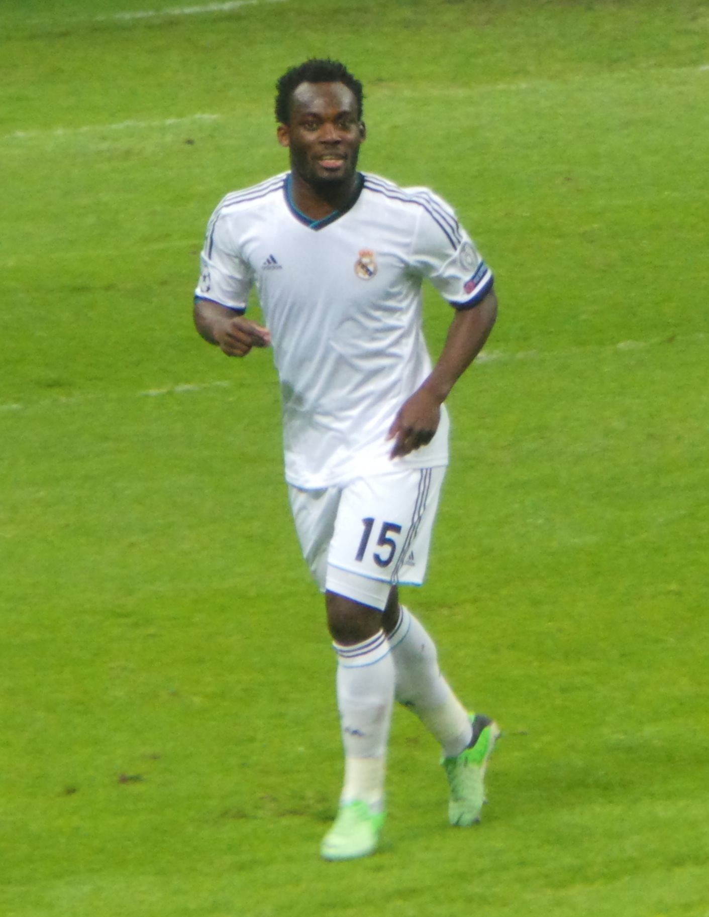 Essien with Real Madrid against Galatasaray